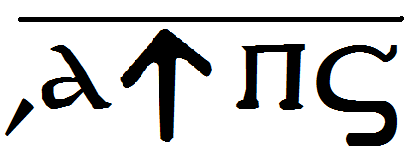 Ionic numeral 1986 in early medieval minuscle style; sampi as upwards arrow, and stigma-shaped digamma.